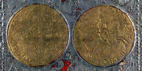 detail from four of coins card from the Visconti Cary-Yale tarot deck.